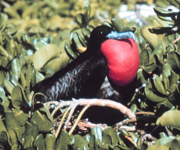 A male frigate bird (Fregata minor) Laysan Island, Hawaiian Archipelago, Pacific Ocean